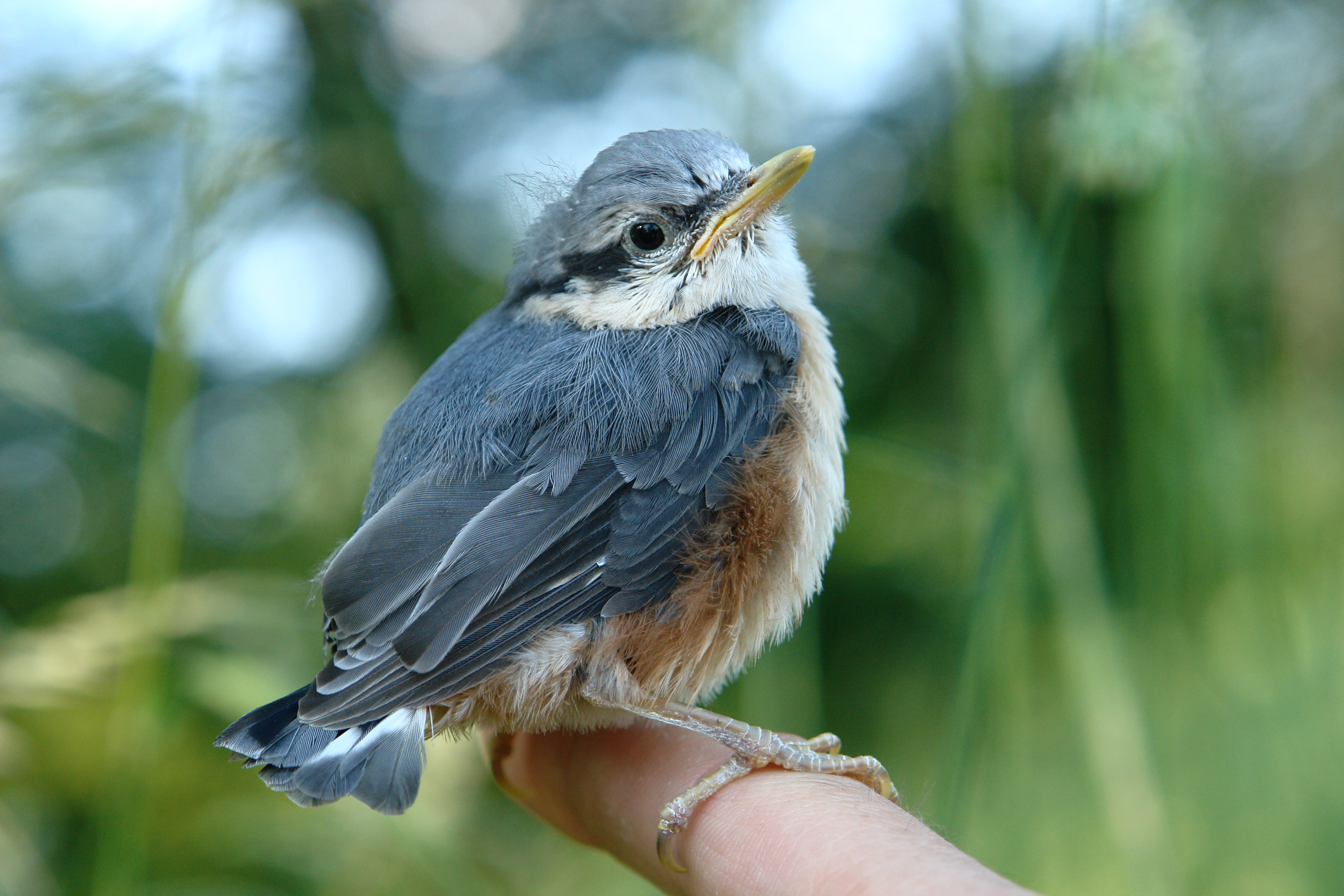 A young nuthatch ( Sitta europaea ): A short break before the second flight test.